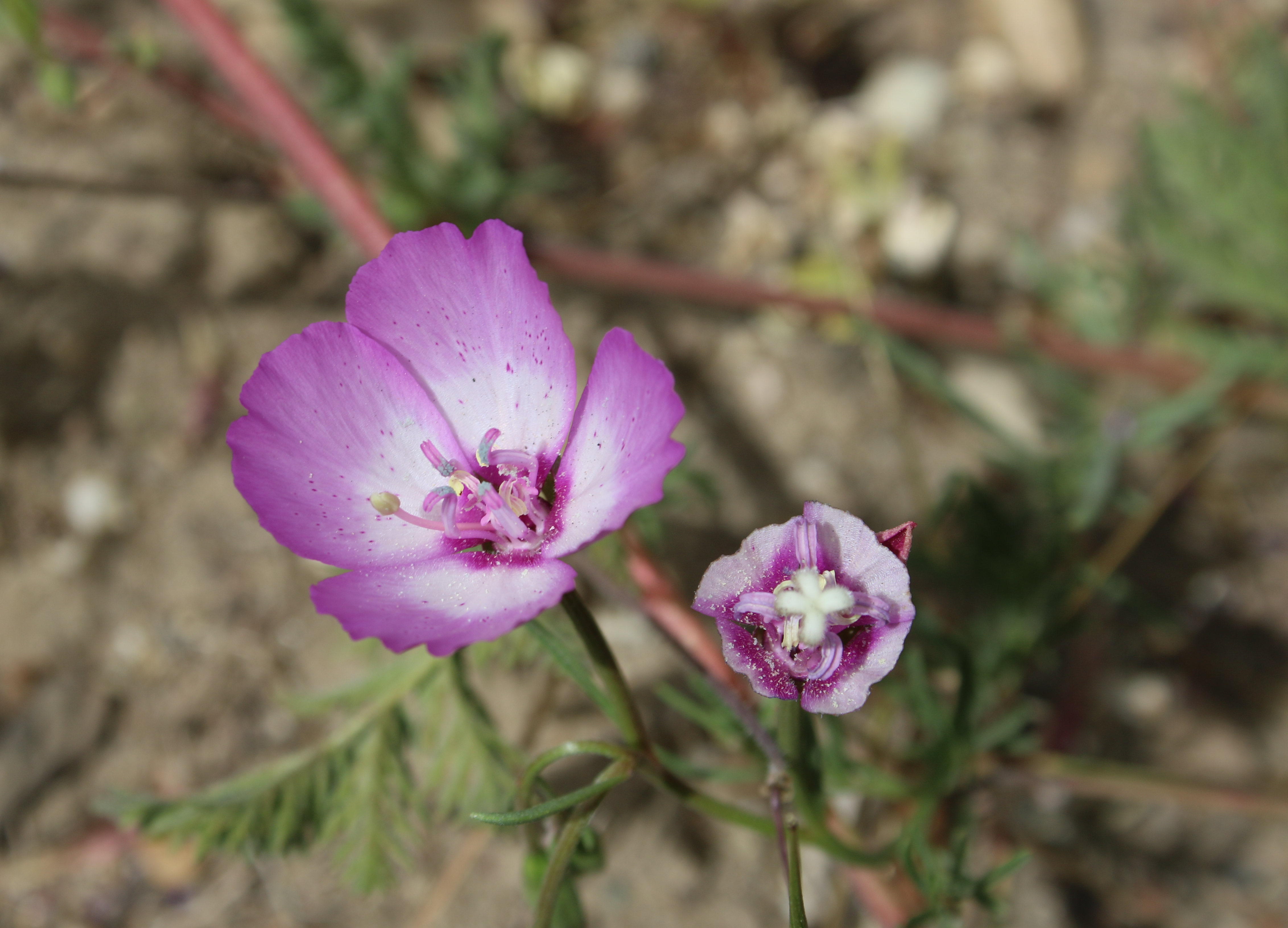 Clarkia bottae (farewell-to-spring)